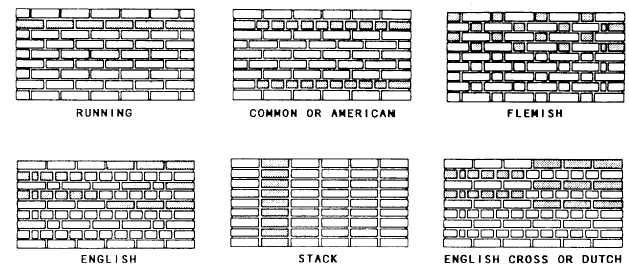 Diagram showing various masonry bonds, including running, common or American, Flemish, English, stack, and English cross or Dutch bond.